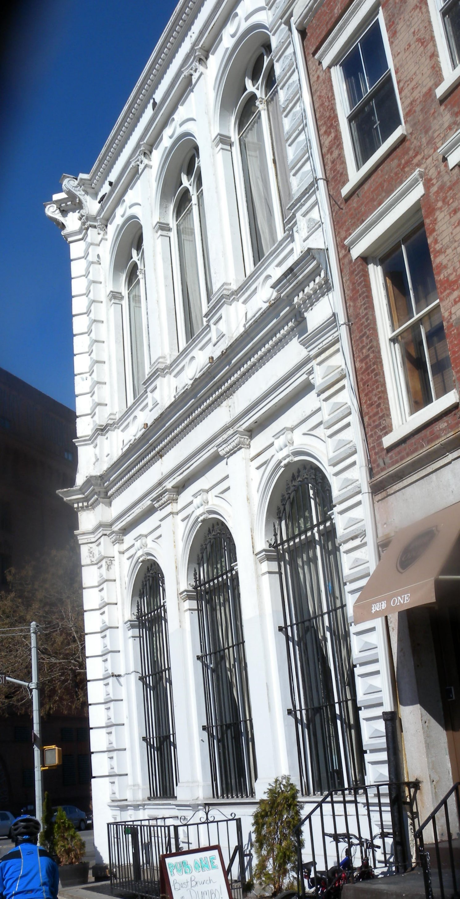 Looking west at 1 Front Street on a sunny morning more than a year before Grimaldi's Pizza moved in.